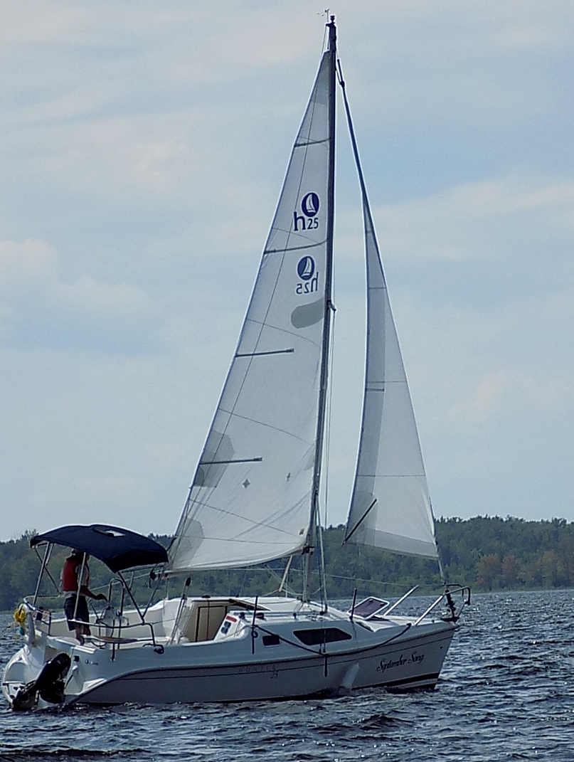 A Hunter 25 sailboat named September Song.